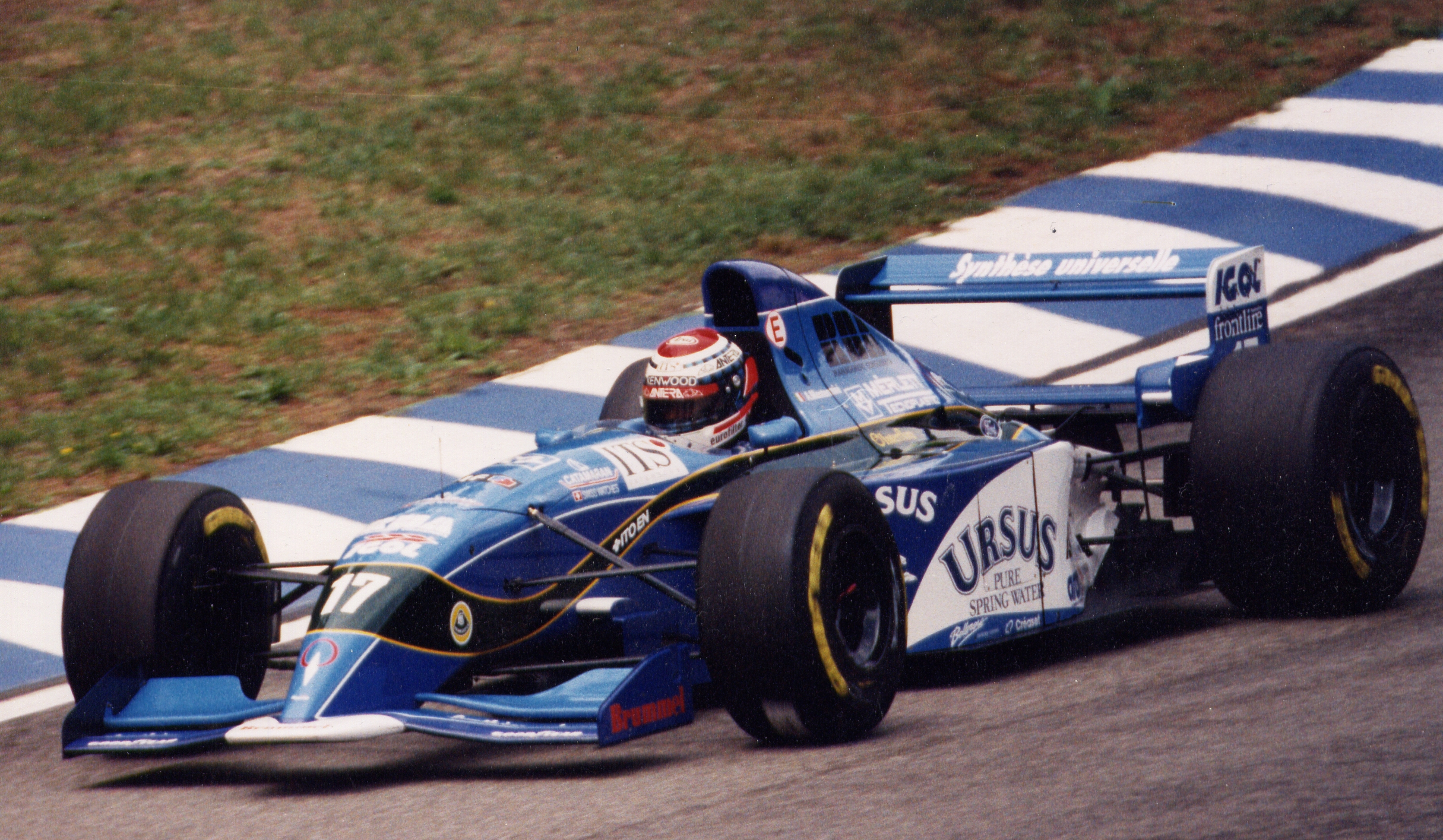 Pacific Grand Prix, Germany 1995, Andrea Montermini